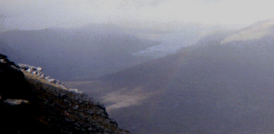 Loch Langavat is a large loch in the inlands of the island of Lewis with Harris (Leòdhas agus na Hearadh), in the Outer Hebrides. It stretches from Harris (na Hearadh) in the South, to Lewis (Leòdhas) in the North. Here its southernmost part is seen from the top of Clisham, the highest hill in the Outer-Hebridean archipelago, on a foggy day. To the right of the picture's centre, a rainbow can be seen.